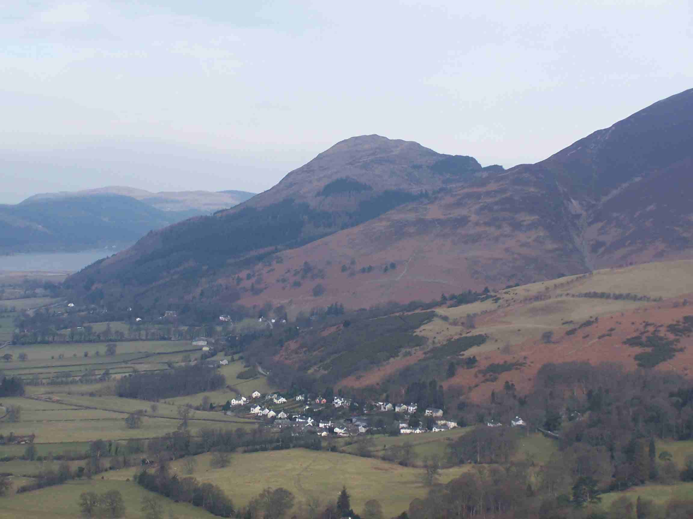 Dodd from near Keswick